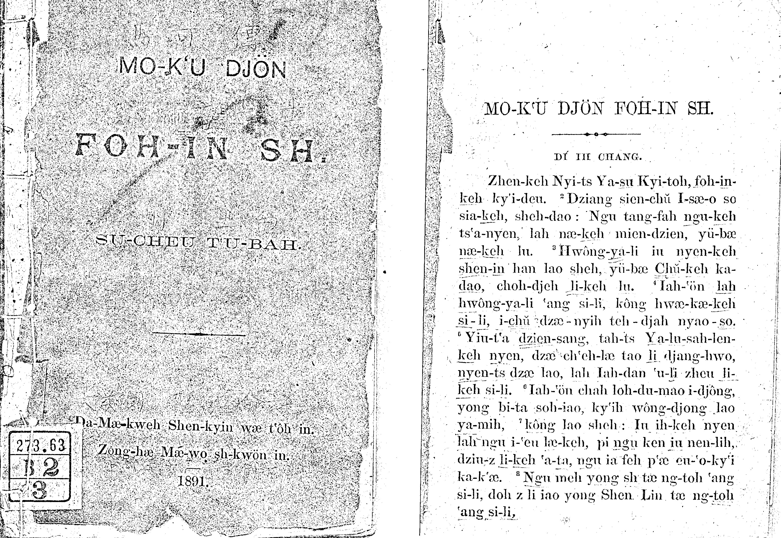 Gospel of Mark, Soochow (Suzhou) Bible.